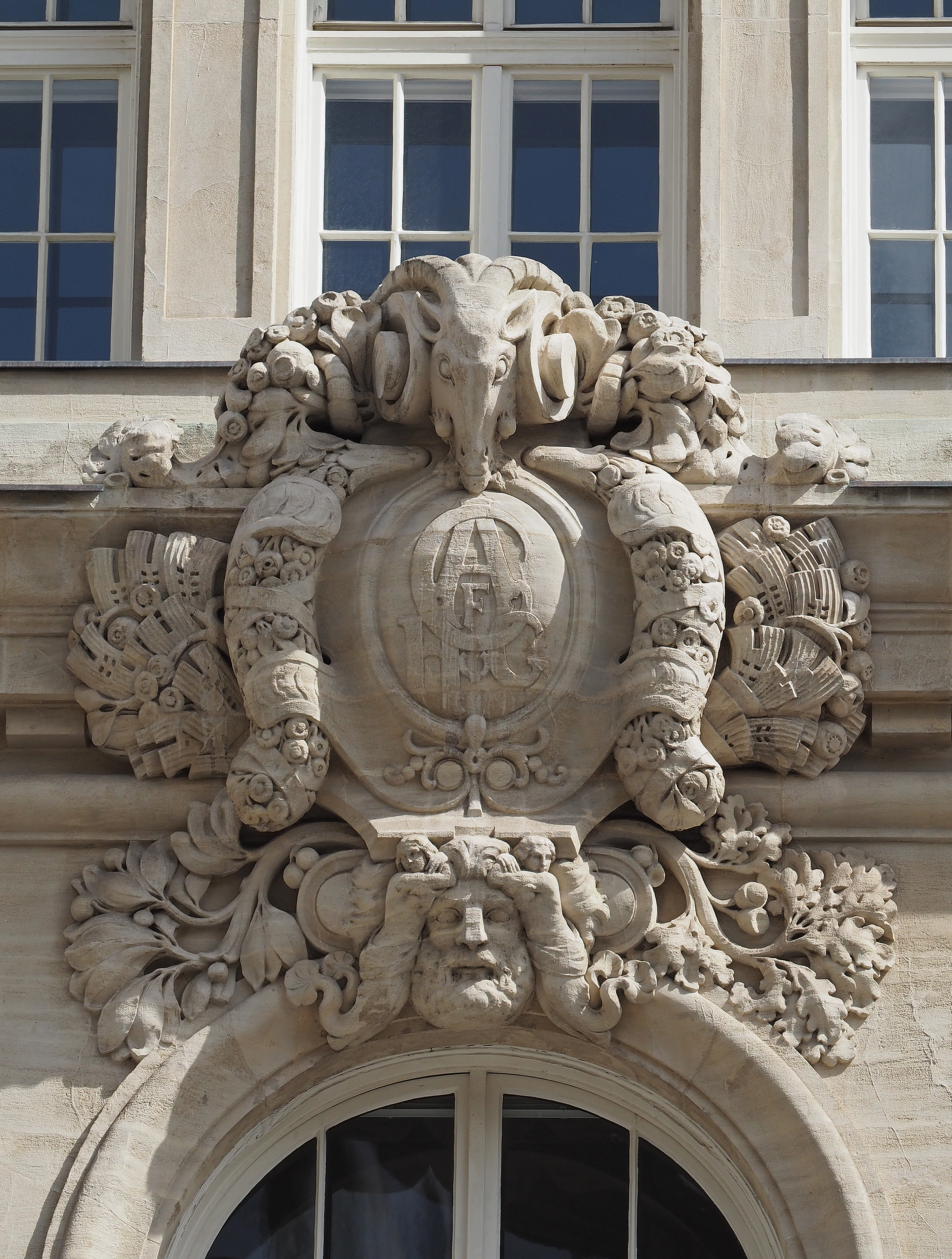 C.A.F.H.U.G. (= Credit-Anstalt für Handel und Gewerbe) on the former Creditanstalt building (now Constitutional Court of Austria), Freyung 8/Renngasse 2, 1010 Vienna